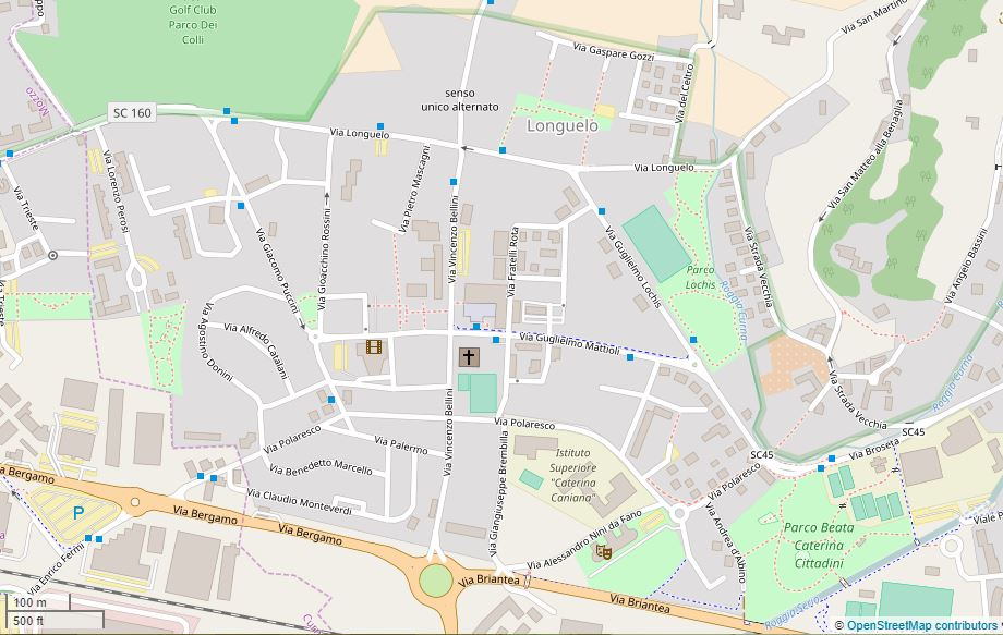 Bergamo, Longuelo This map may be incomplete, and may contain errors. Don't rely solely on it for navigation.